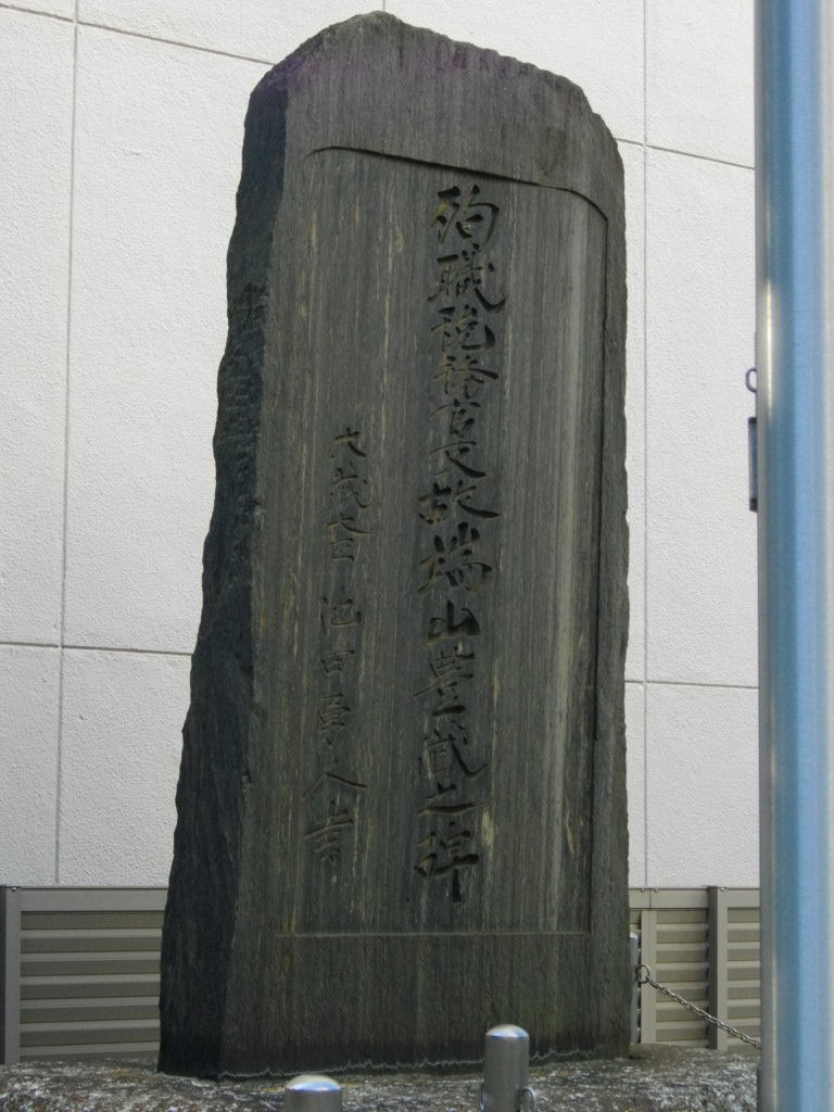 Cenotaph for tax collector who was killed in the line of duty